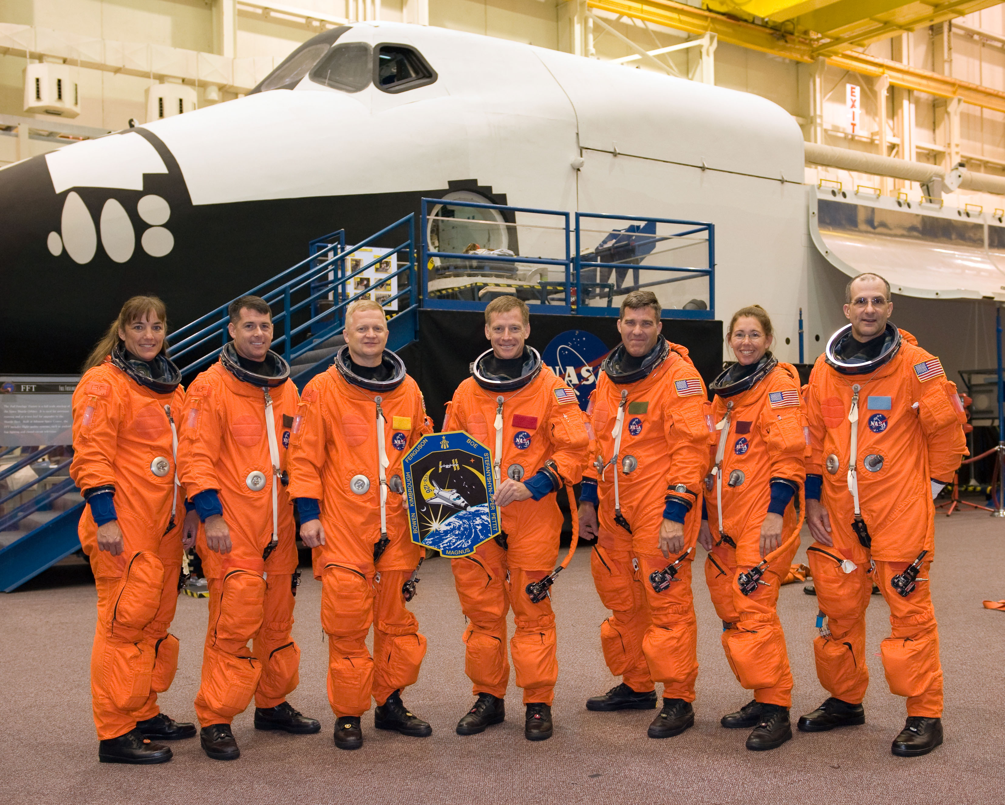 The STS-126 crewmembers take a break during a training session for a portrait with their crew logo in the Space Vehicle Mock-up Facility at NASA's Johnson Space Center. From the left are astronauts Heidemarie Stefanyshyn-Piper, Shane Kimbrough, both mission specialists; Eric Boe, pilot; Chris Ferguson, commander; Steve Bowen, Sandra Magnus and Donald Pettit, all mission specialists. Magnus is scheduled to join Expedition 18 as flight engineer after launching to the International Space Station with this crew.